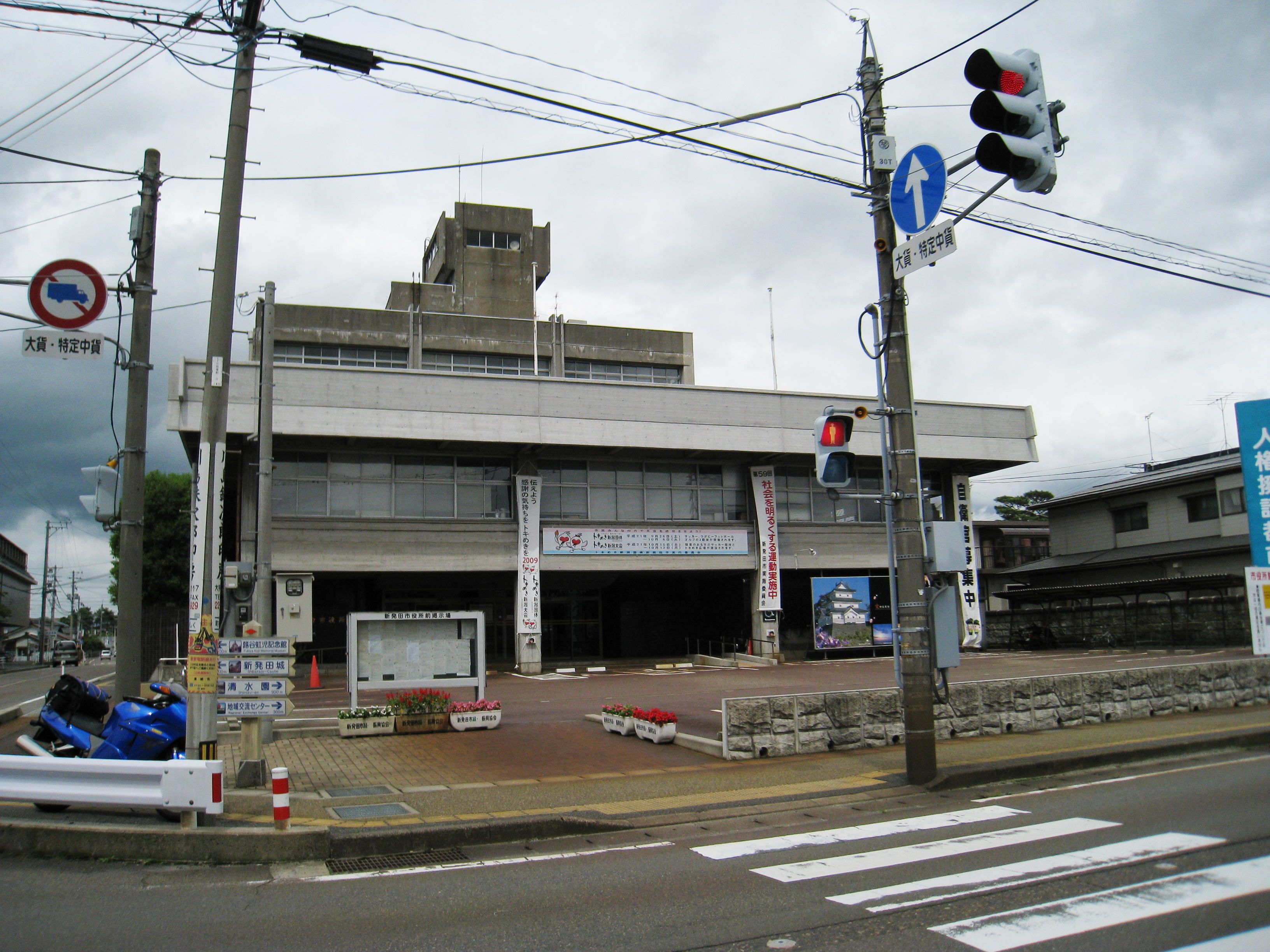 Shibata CityHall, Niigata-Pref, Japan